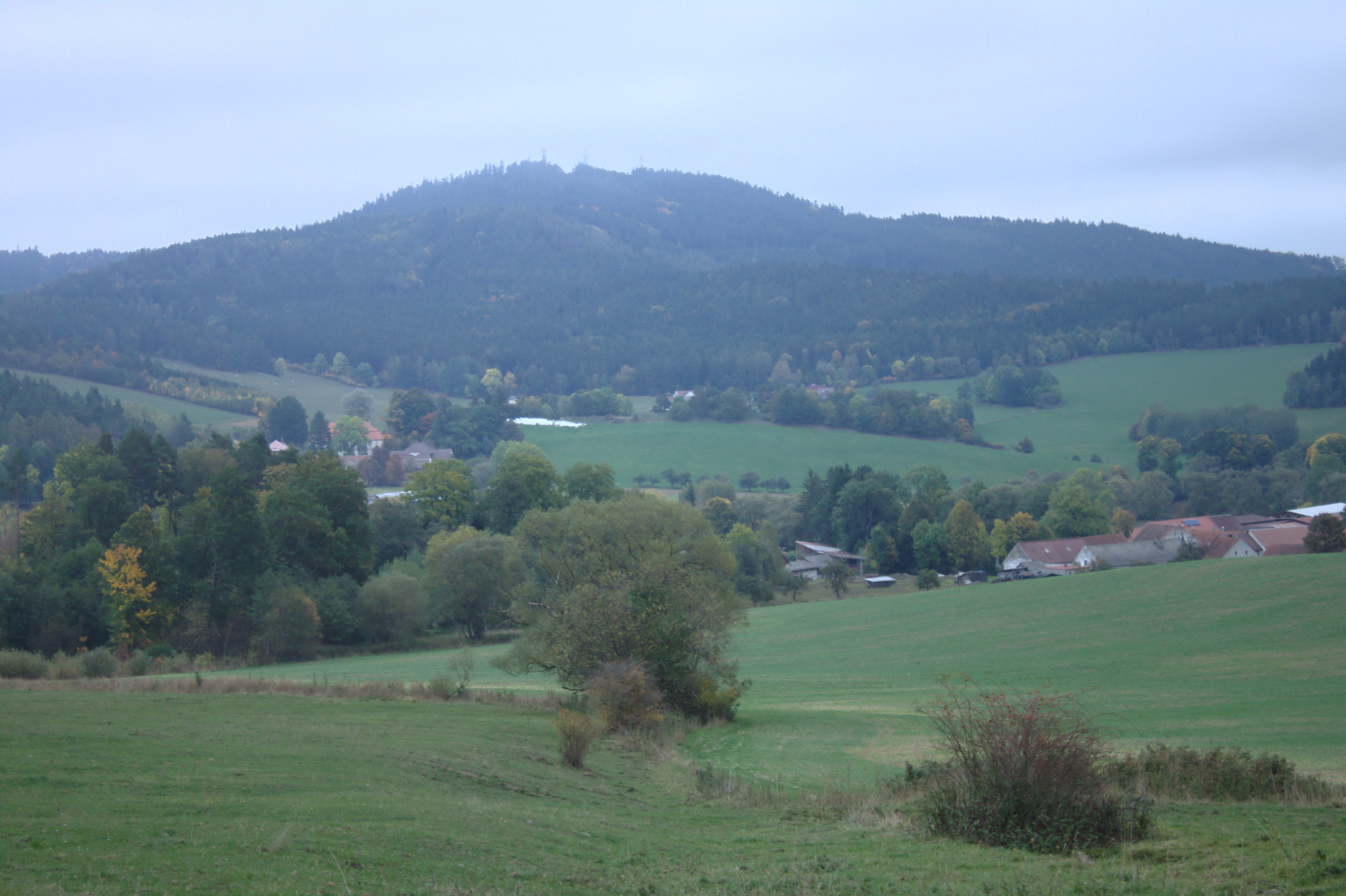 A bus stop in Hoštičky, Plzeň Region, CZ